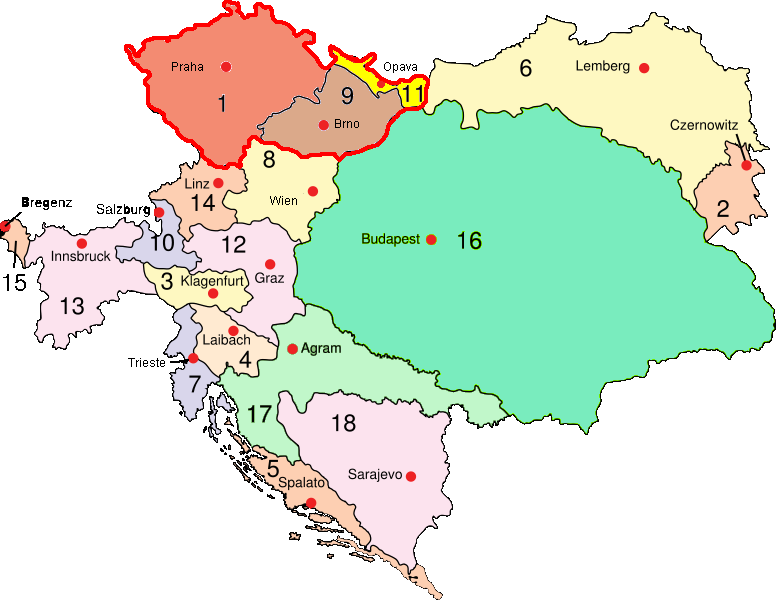 Austria-Hungary in 1910. Cisleithania: 1. Bohemia, 2. Bukovina, 3. Carinthia, 4. Carniola, 5. Dalmatia, 6. Galicia, 7. Austrian Coast, 8. Lower Austria, 9. Moravia, 10. Salzburg, 11. Silesia, 12. Styria, 13. Tirol, 14. Upper Austria, 15. Vorarlberg; Transleithania: 16. Hungary, 17. Croatia and Slavonia, 18. Bosnia and Herzegovina. Czech crown lands: 1, 9, 11.